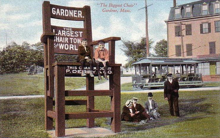 "The Biggest Chair," Gardner, MA; from a c. 1910 postcard. Set on the lawn at the Boston & Maine Railroad Station, it was 12 feet tall and weighed 1,600 pounds.